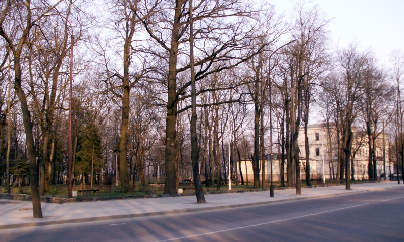 Park of Didždvaris